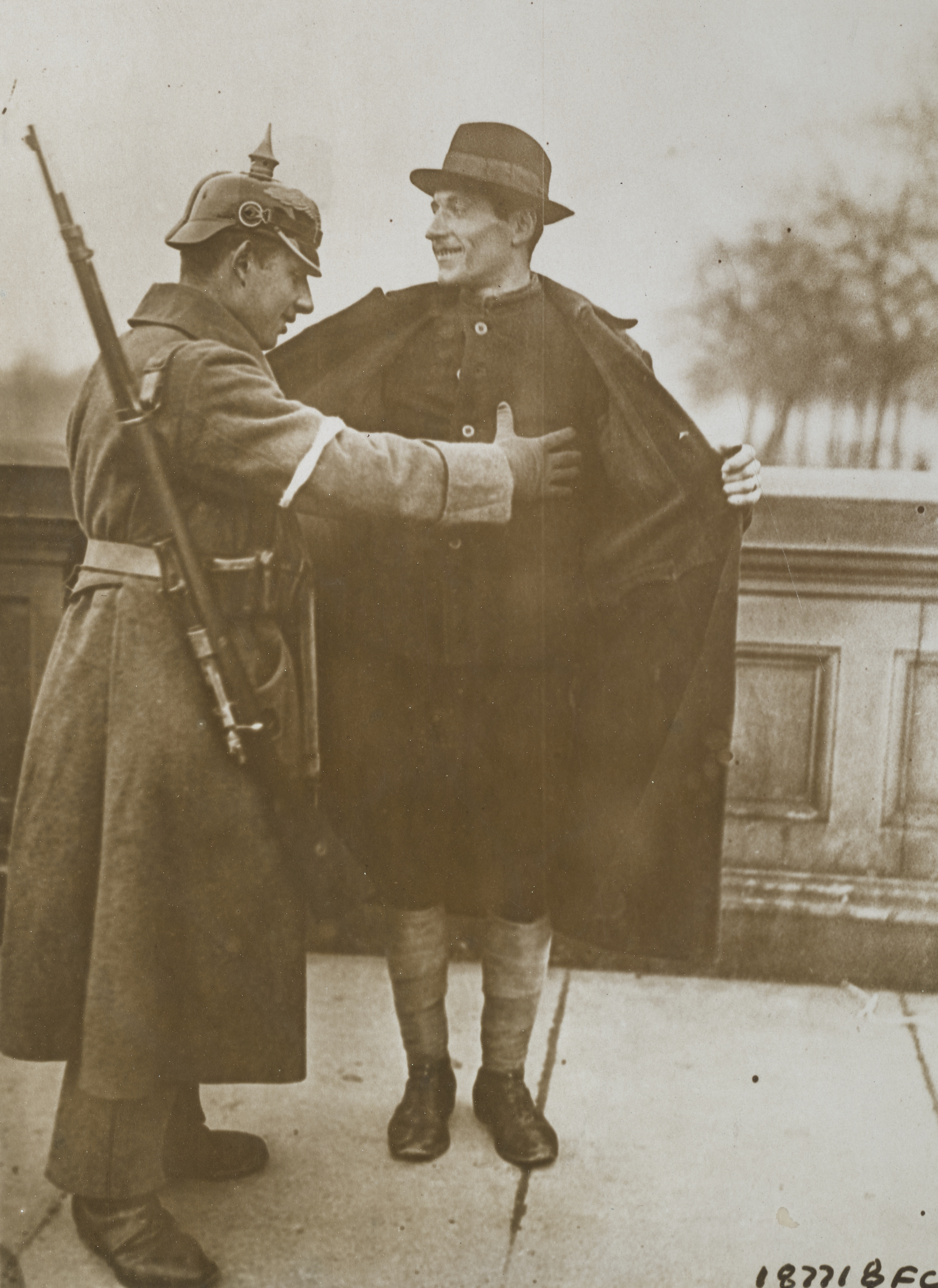 Scope and content: Photographer: Underwood and Underwood